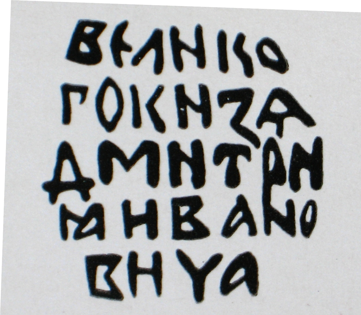 The seal of Dmitry Donskoy: text. Тест подписи на печати: "Великого кнзя Дмитрия Ивановича" (Донского).